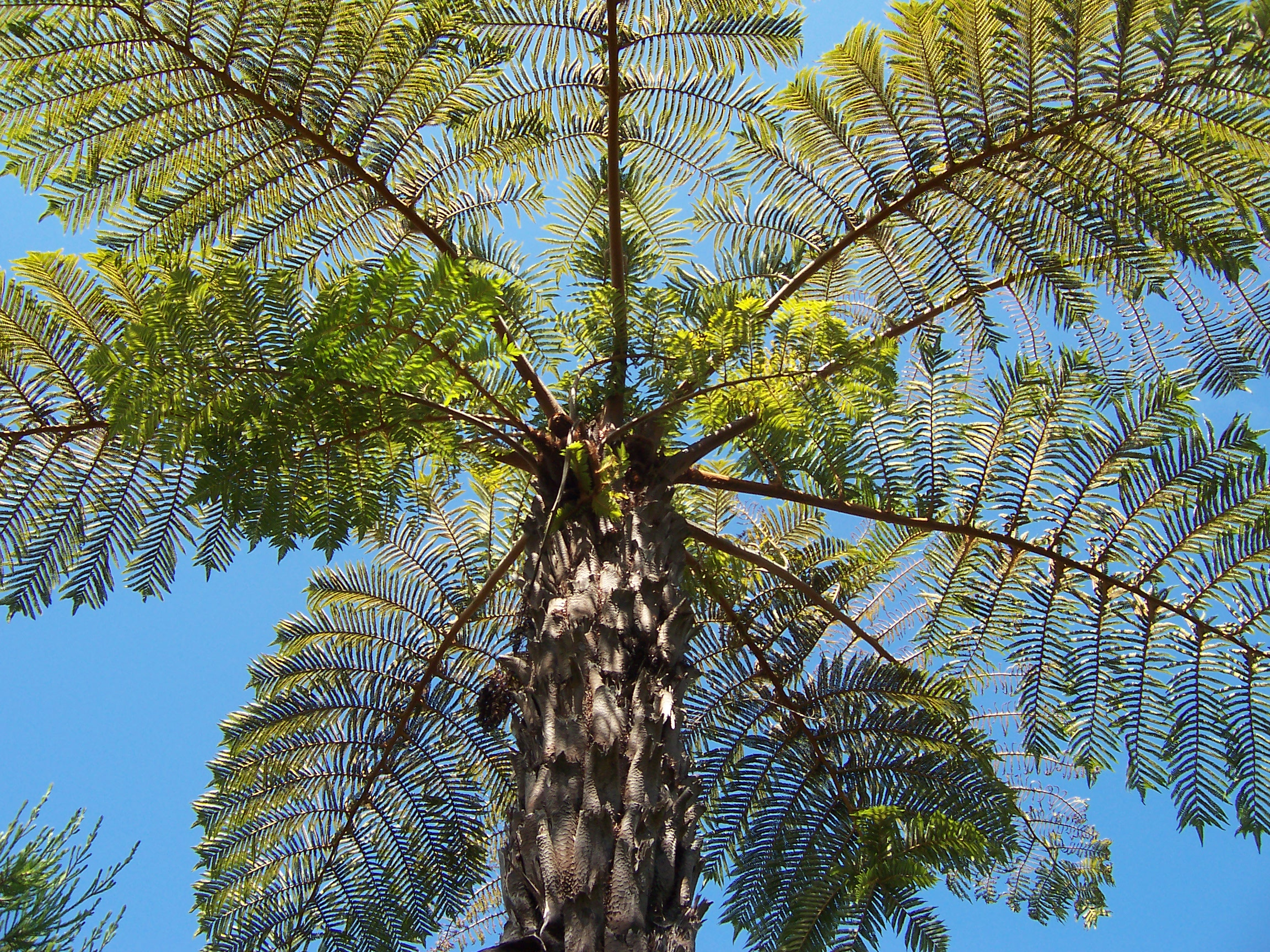 fronds of Cyathea glauca seen from underneath